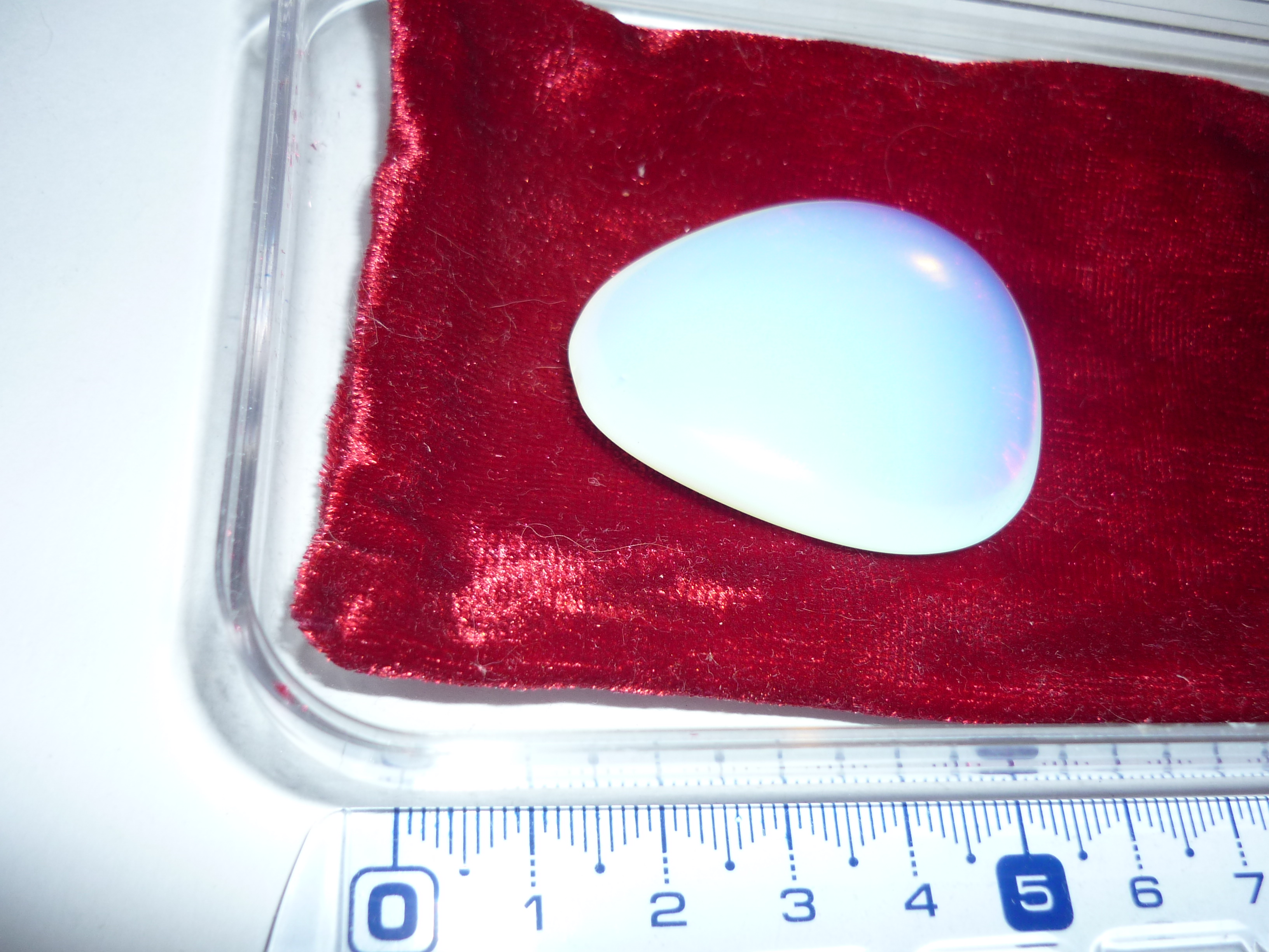 glassy opal simulant